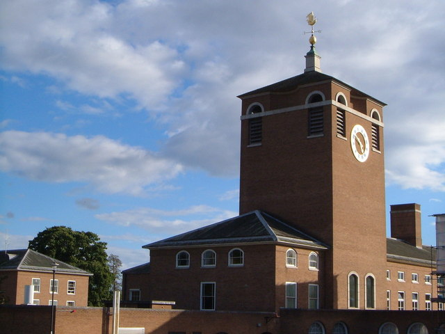 Clock tower, County Hall, Exeter